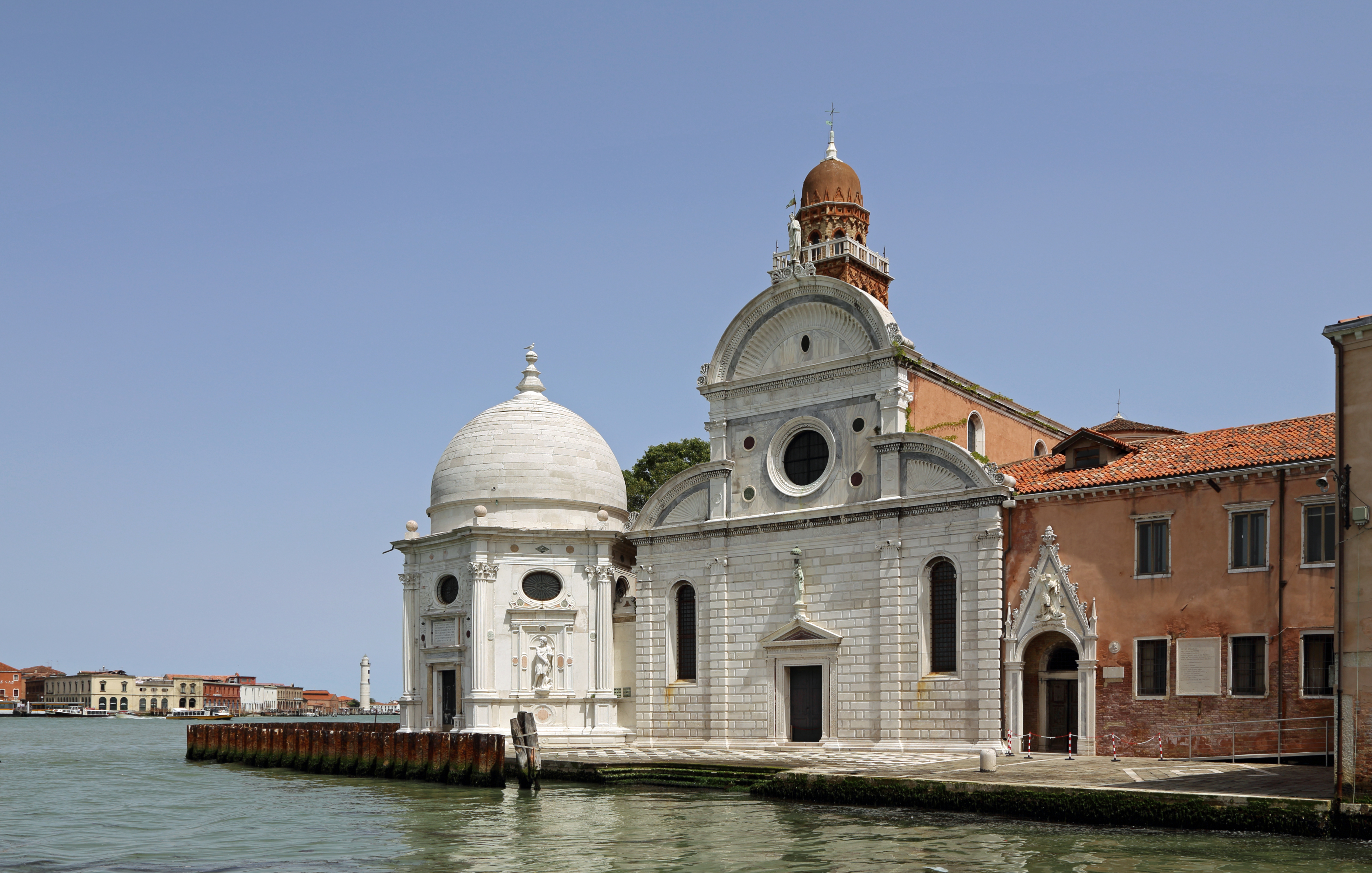 Venice (Italy): church of San Michele in Isola